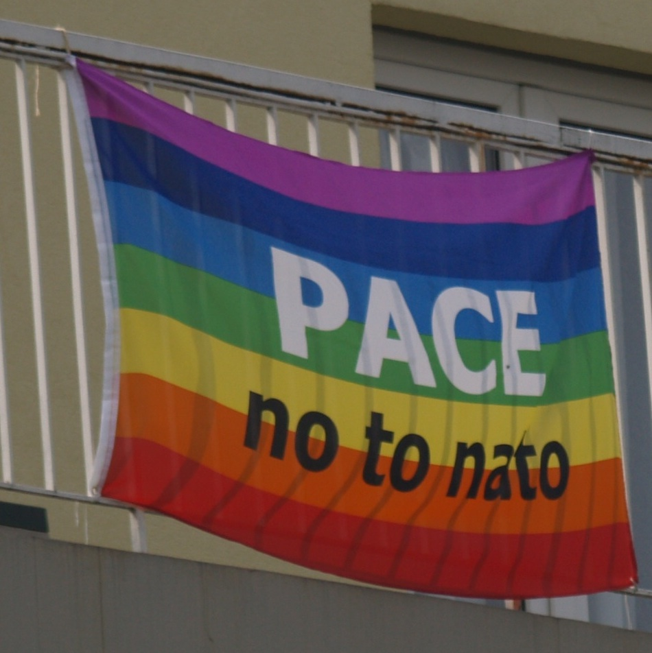 A "no to NATO" flag in Strasbourg